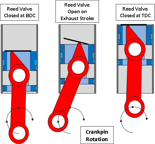 The top of the piston has a thin metal reed valve. The elongated end of the connecting rod pushes open the reed valve when the crankpin tilts the rod on the exhaust stroke. The reed valve is closed when the connecting rod is vertical at TDC and BDC and tilted the other direction during the expansion stroke